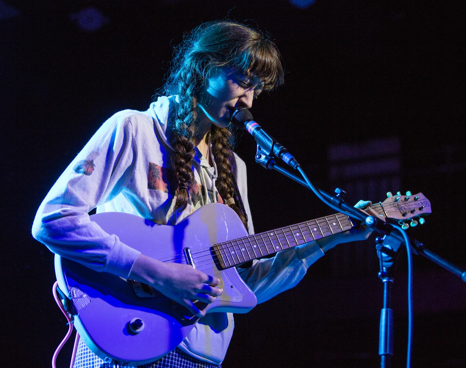 Frankie Cosmos performing at Cambridge, MA.